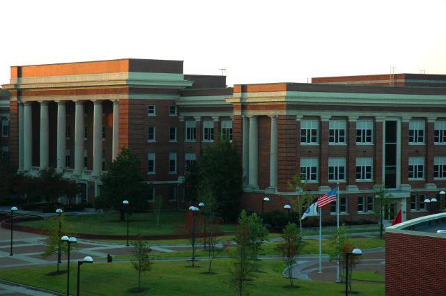 CVR College of Engineering administration building. Amateur photograph.